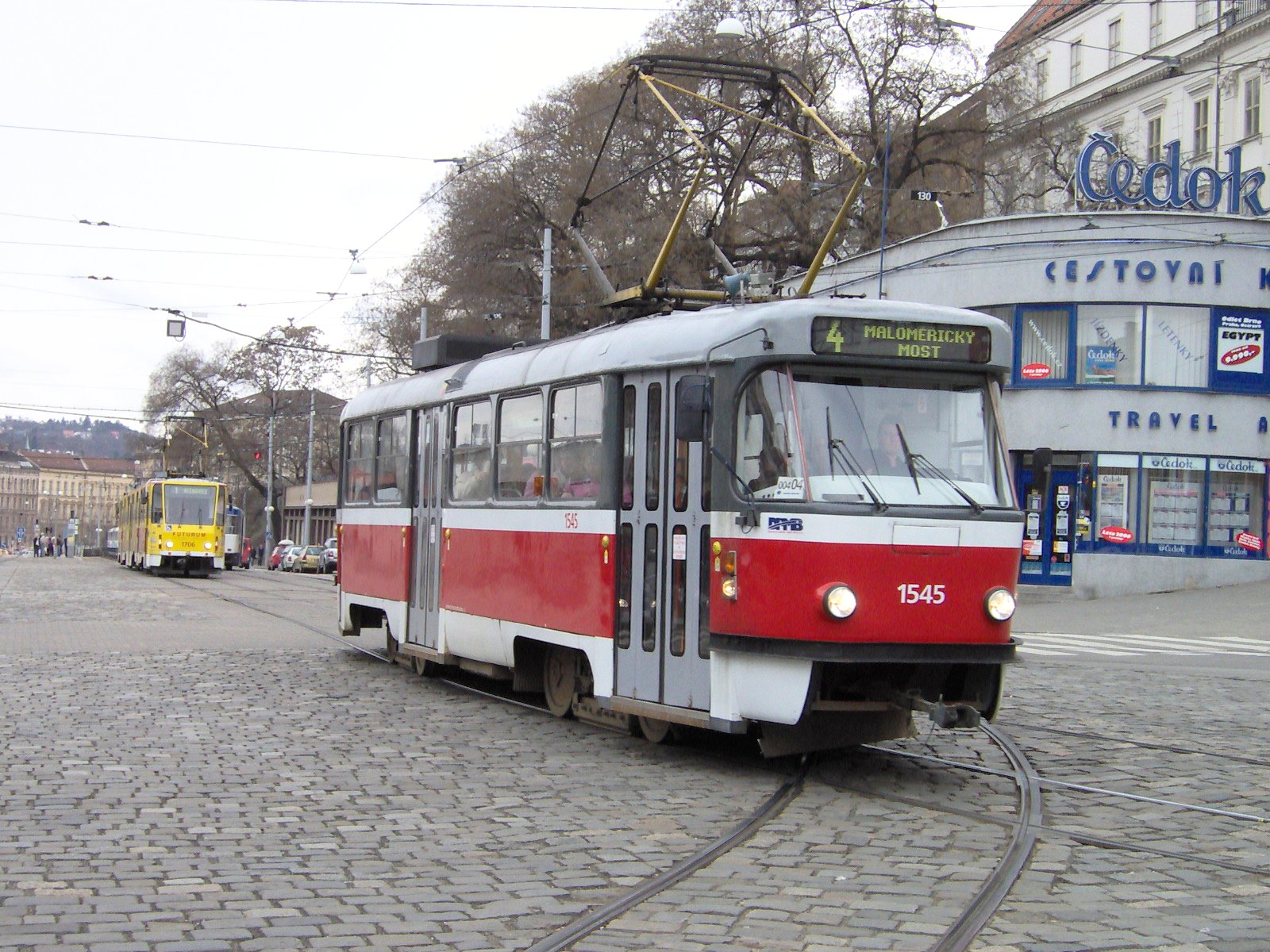 T3M tram in Brno